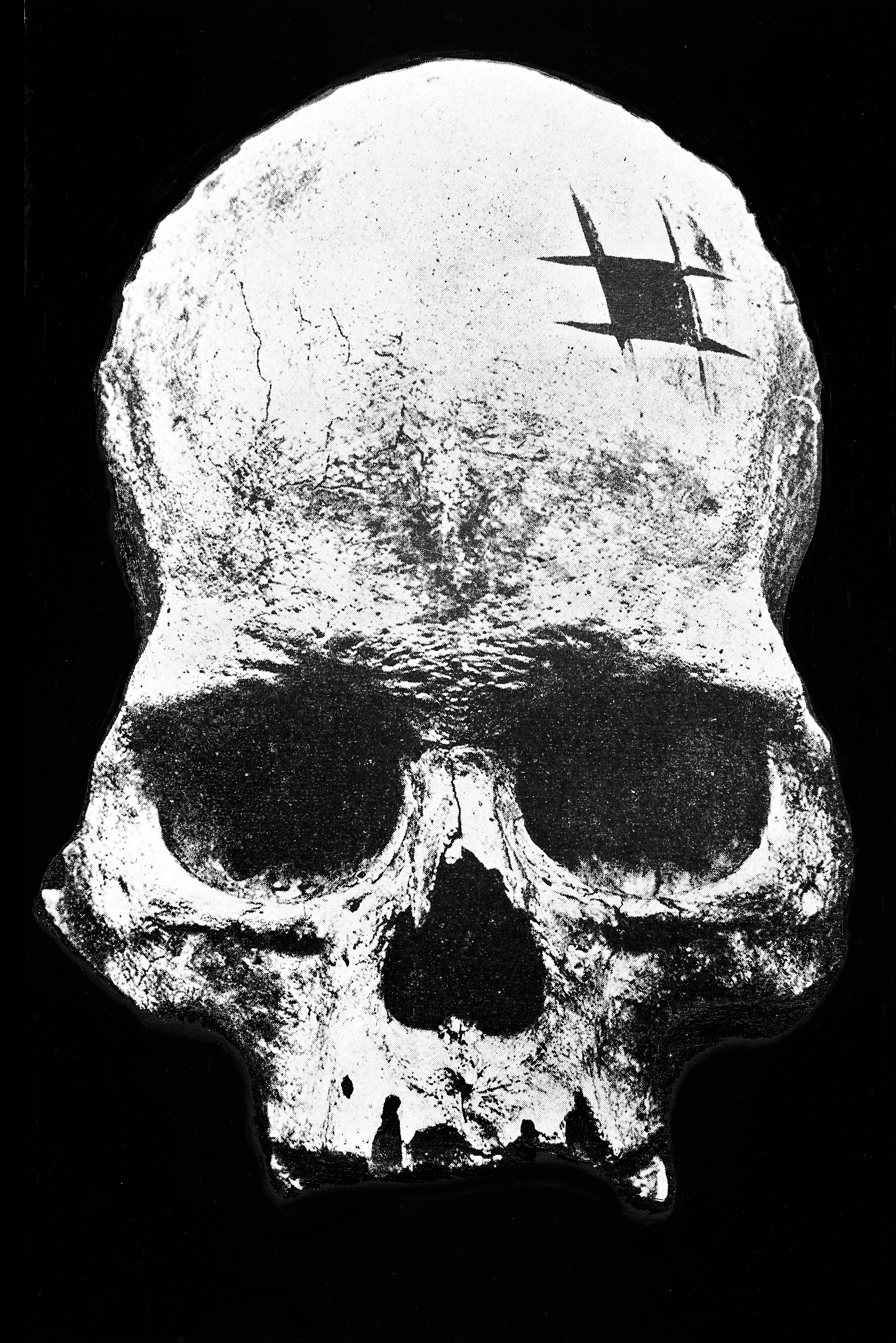 Anterior aspect of Squiers, Inca Skull, showing trephinning Wellcome Images Keywords: inca; Peru; prehistoric surgery; Trephination